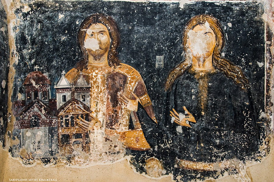 Fresco, ktitors